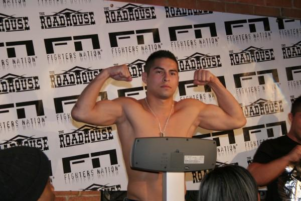 This is a picture of a fighter at the 'Fighters Nation Presents - Urban Conflict' Mixed Martial Arts pre-fight media weigh-in's at The Road House Bar in Calgary, AB, Canada.